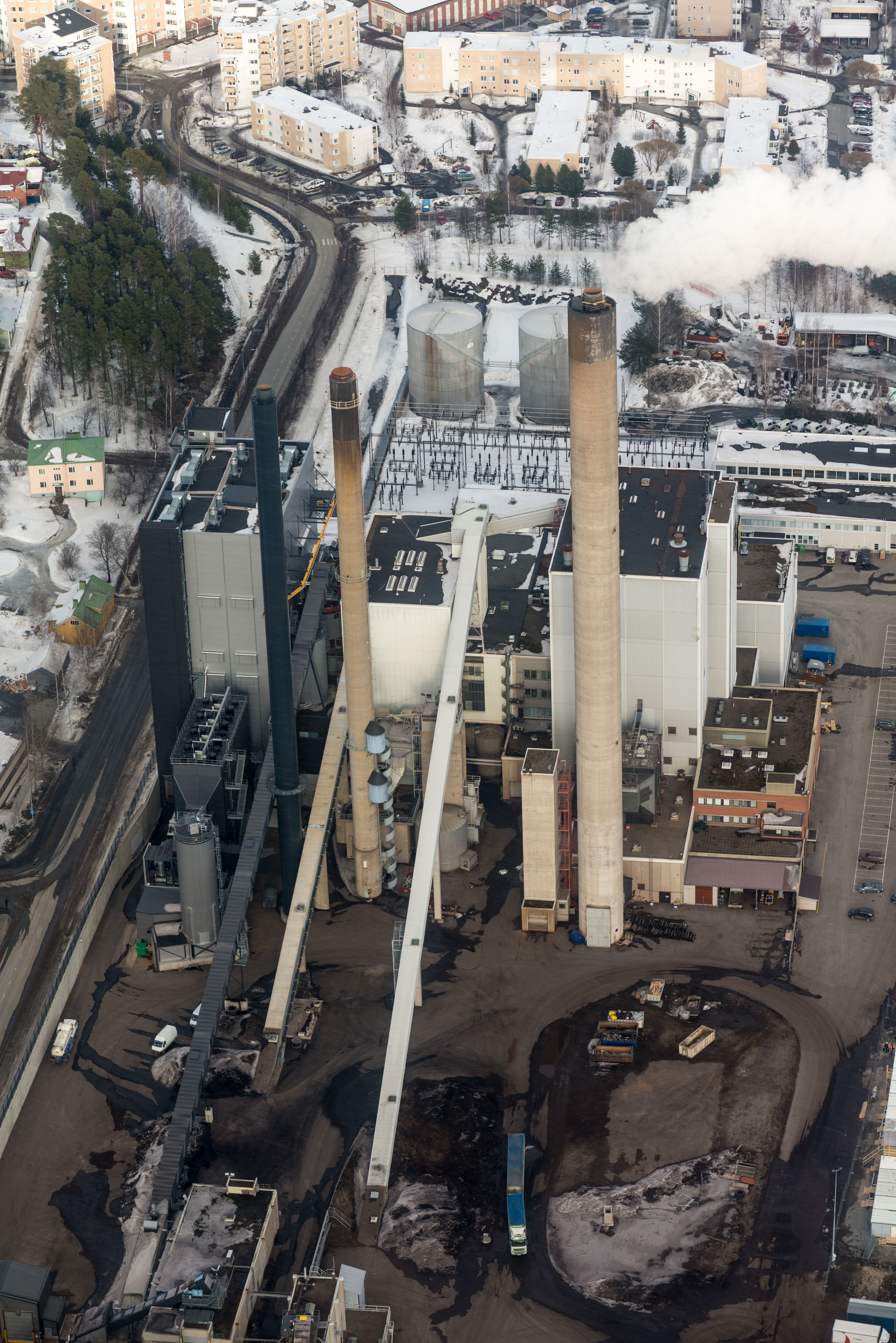 Kuopio's Haapaniemi power plant in Finland from air.